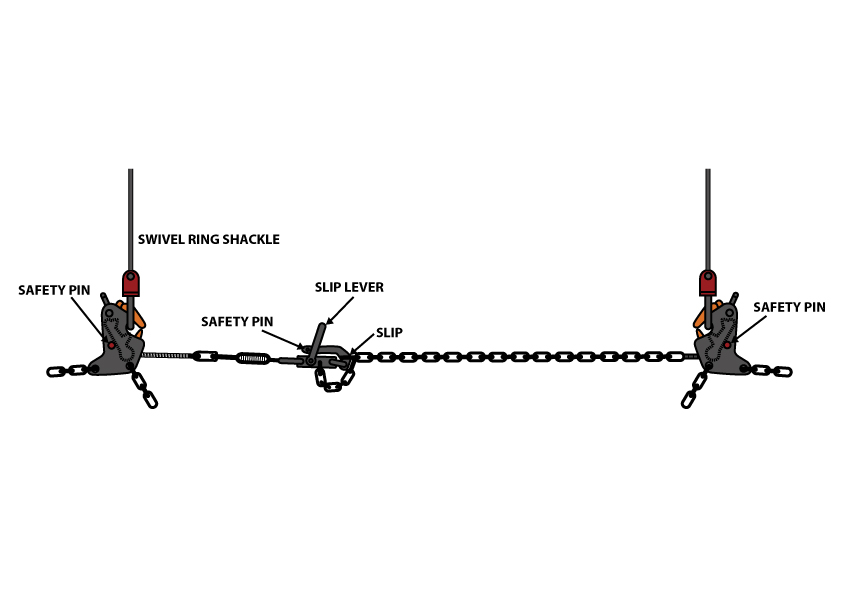 The Safety Pins are still in place, preventing the accidental dropping of the boat. The Fore and After is taught.